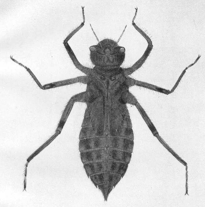 Drawing of Orthetrum cancellatum Naiad x3,6 Drawn from skins found at Frensham Ponds, Surrey, and some received from France or Algeria